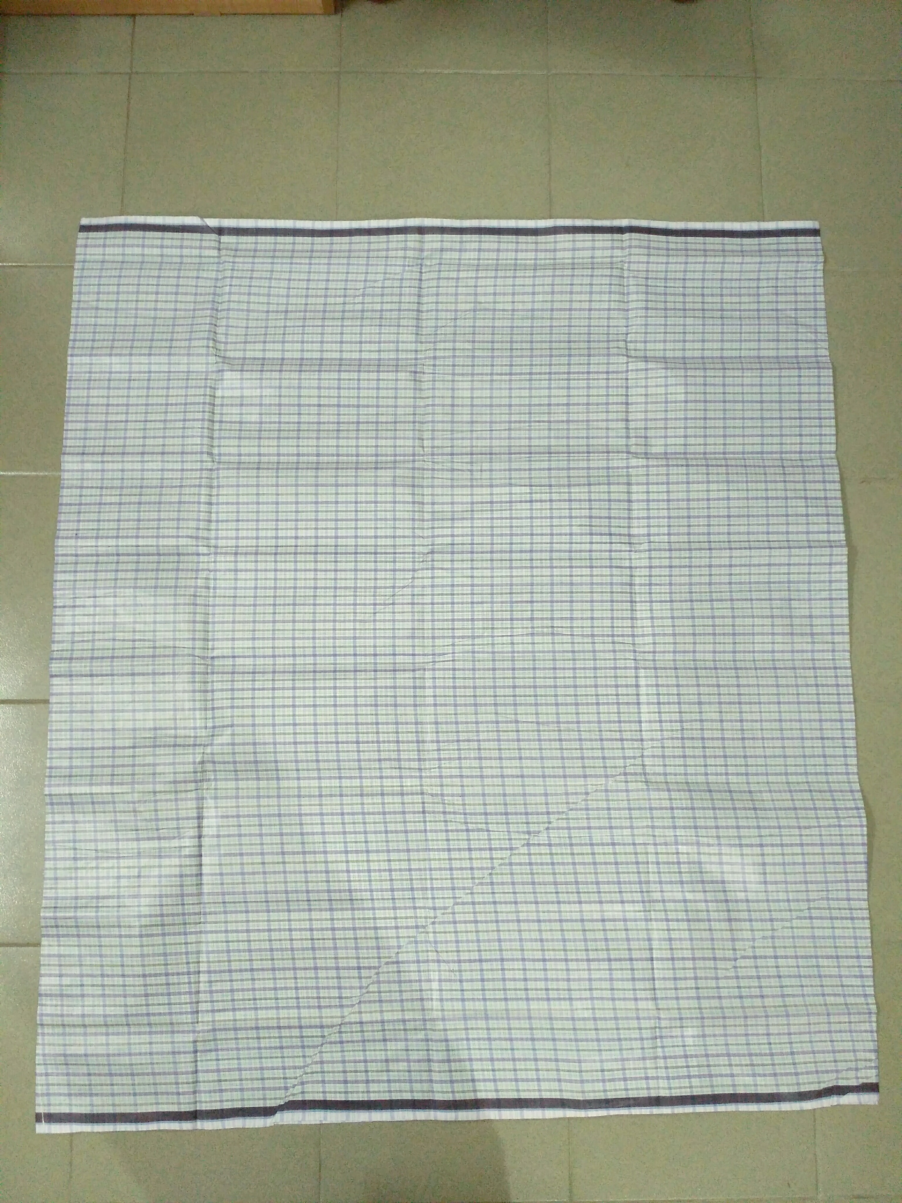 Photo of A Lungi of Bangladesh. It's conventional measurement is 5 Hath ( 90")× 2.75 Hath (49.50"). Only one side is shown in the picture.